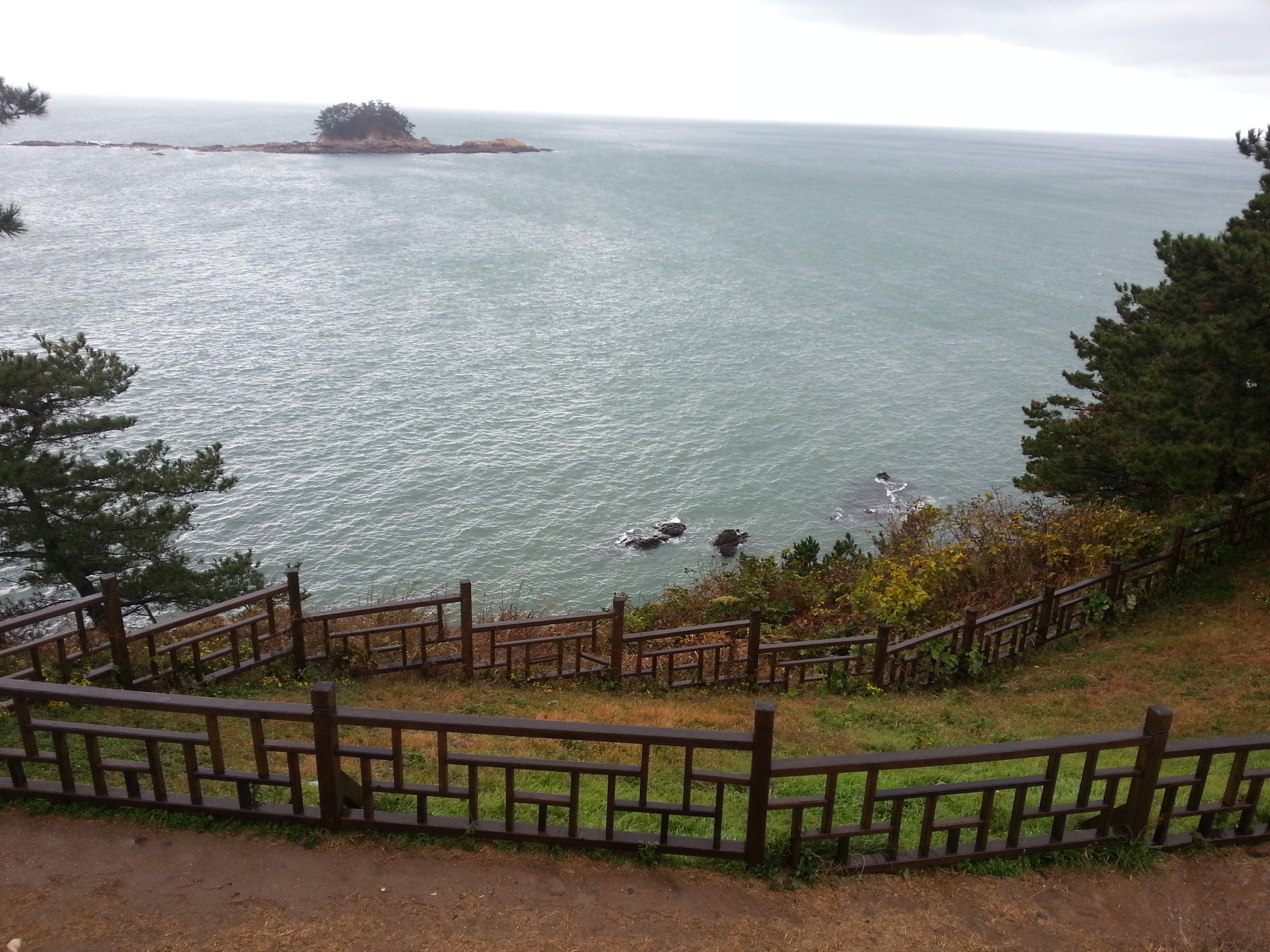 Maryang-ri Camellia Forest, Oryeokdo island